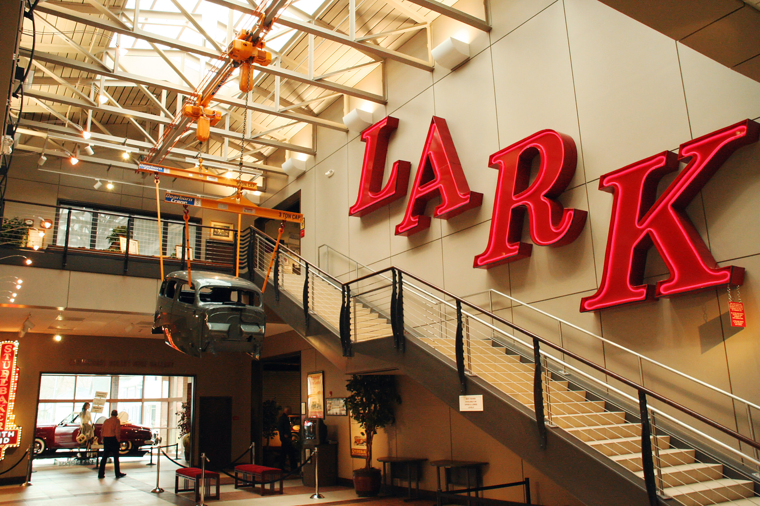 Lobby of the Studebaker National Museum in South Bend, Indiana. Photo shot by Derek Jensen (Tysto), 2006-April-02